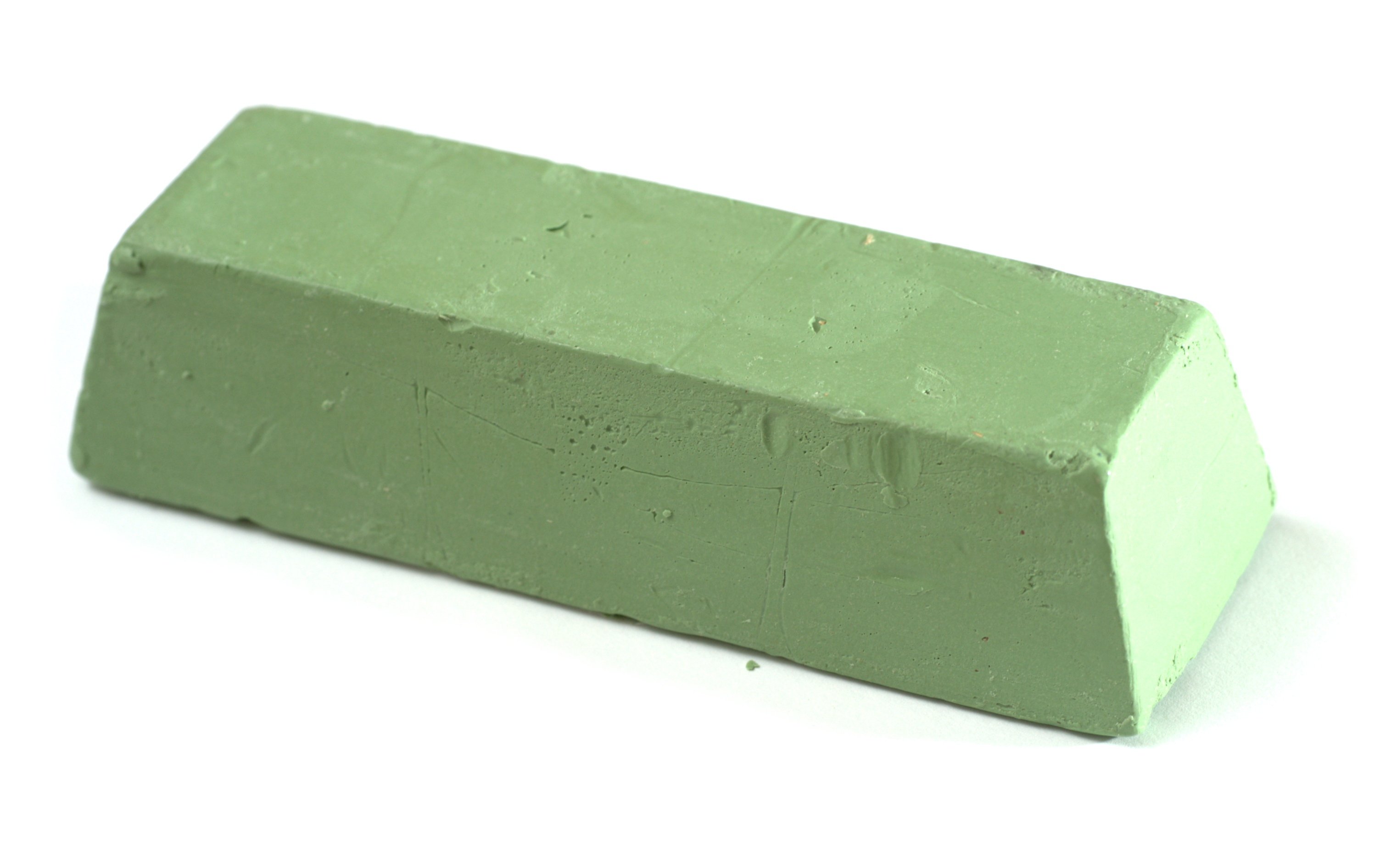 Polishing paste medium, green